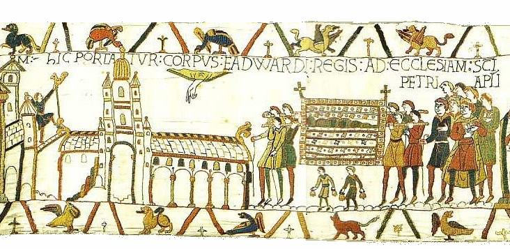 Bayeux Tapestry. Scene 26 HIC PORTATUR CORPUS EADWARDI REGIS AD ECCLESIAM S[AN]C[T]I PETRI AP[OSTO]LI Here the body of King Edward is carried to the Church of Saint Peter the Apostle Bayeux Tapestry tituli#26